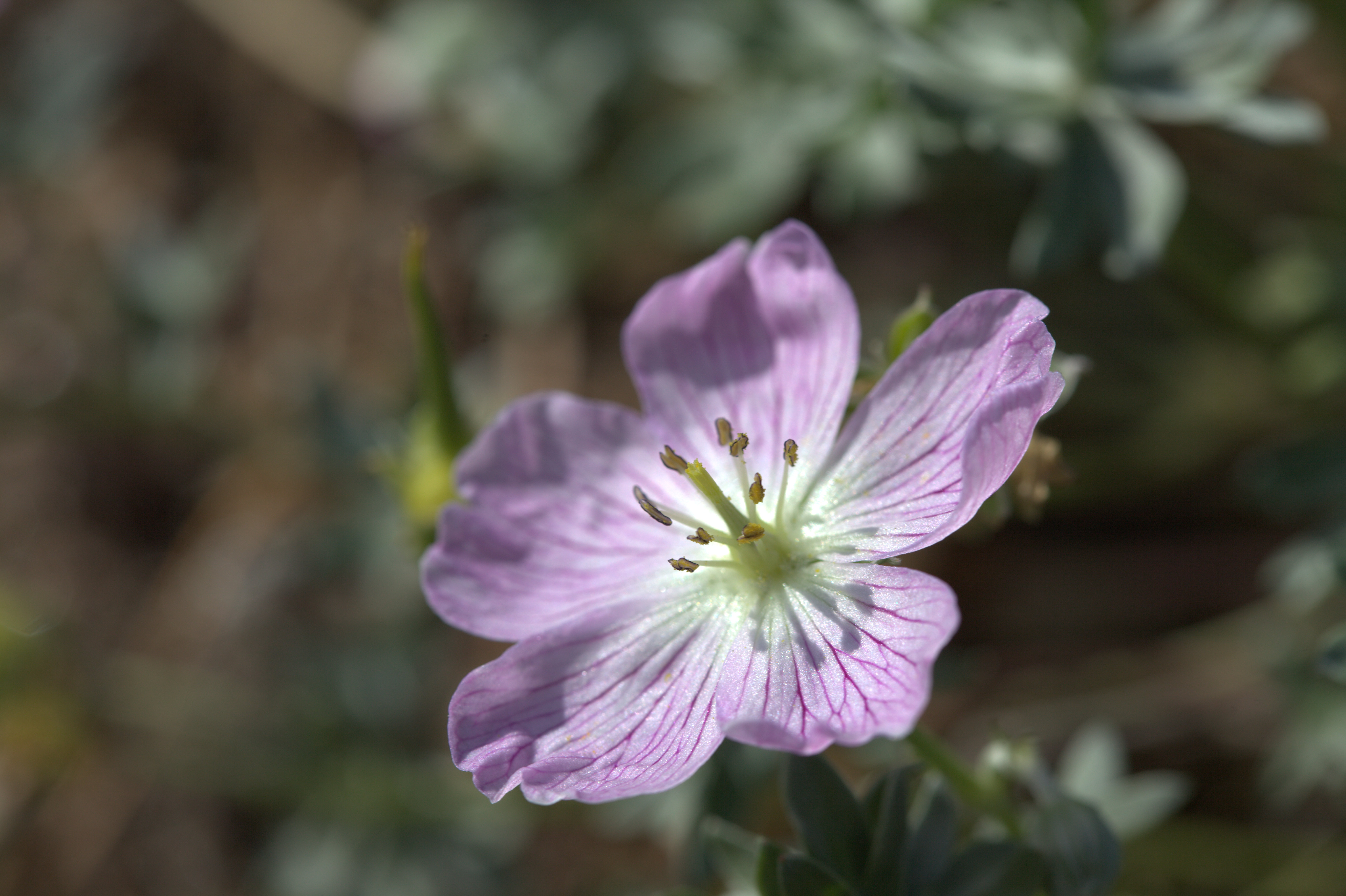 Photo taken at Gothenburg botanical garden. Specimen id: 2010-207 s G Seed collected in 2010 from a garden (GBT/GBT). Spontaneous hybrid at Gotheburg botanical garden.